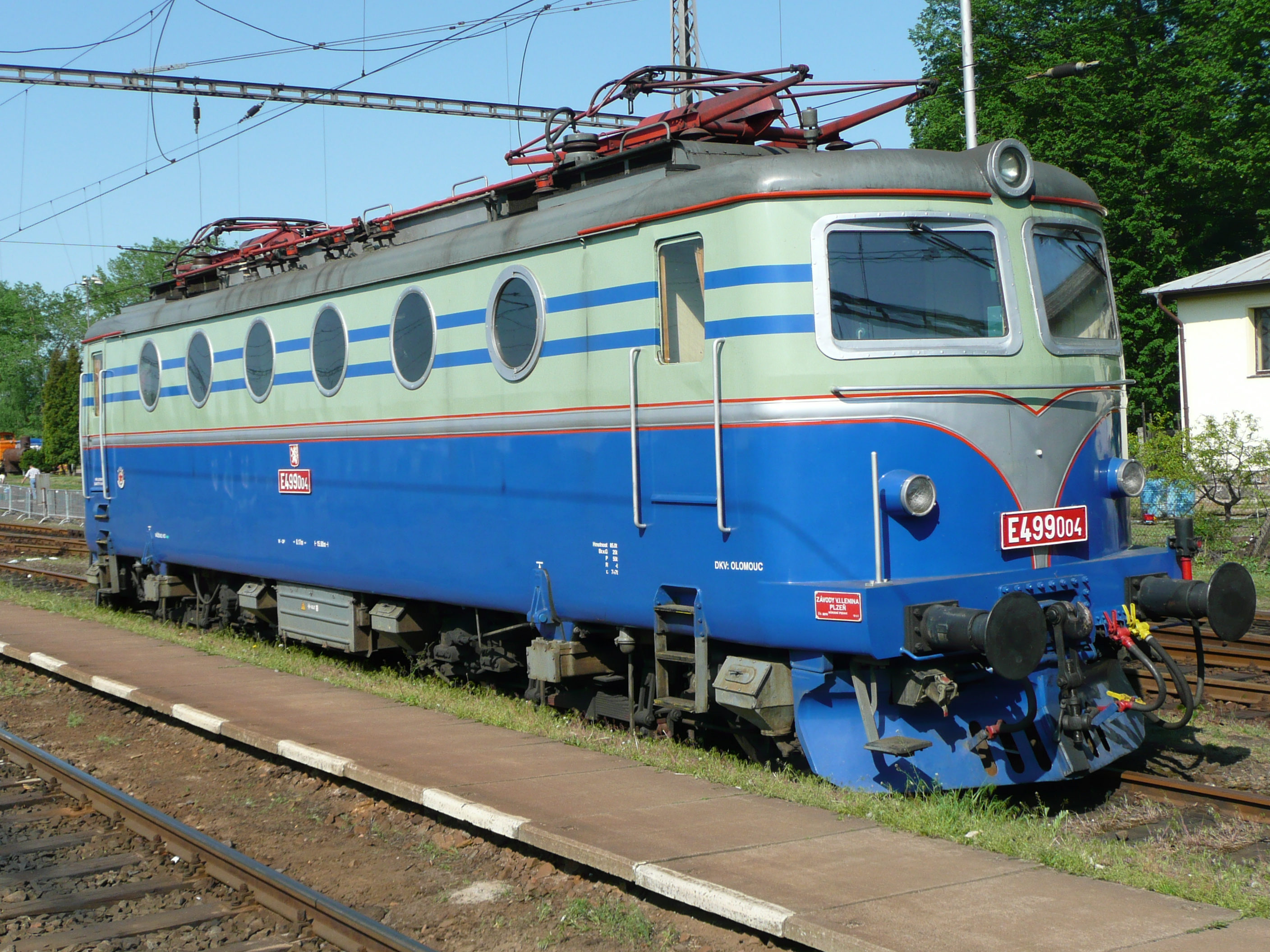 czech electric locomotive E 499.0004 in Jaroměř